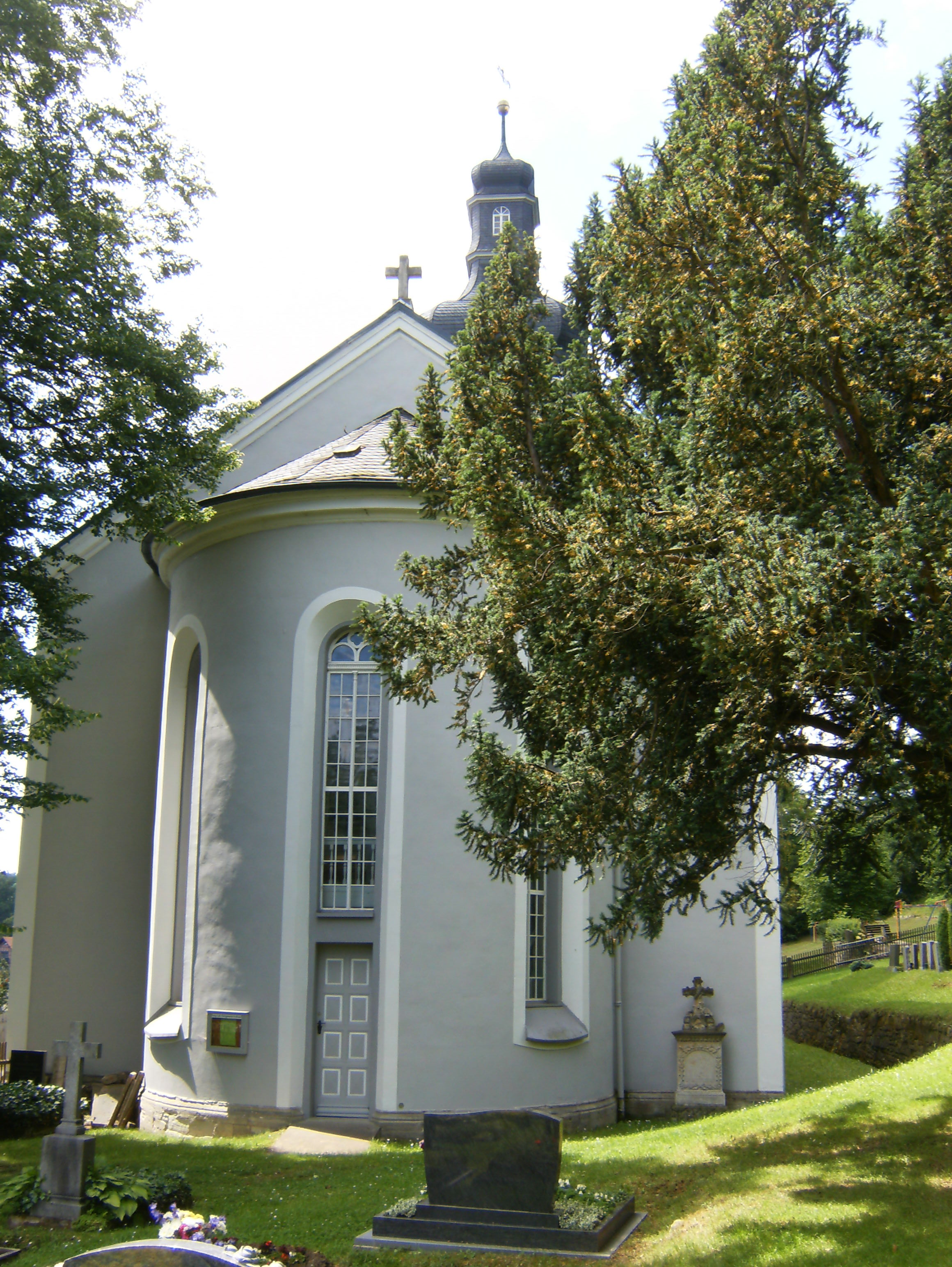 Kraftsdorf, village church.